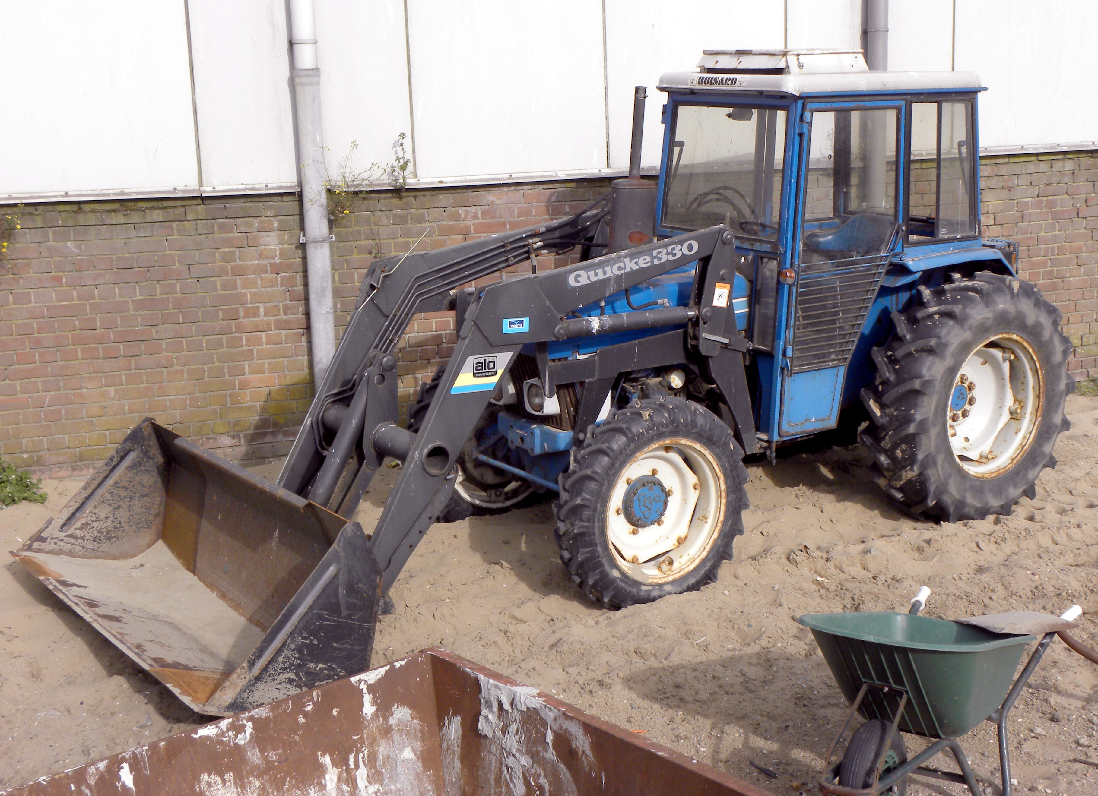 A Ford 4610 tractor (produced from 1982 to 1989) with a Quicke 330 front loader